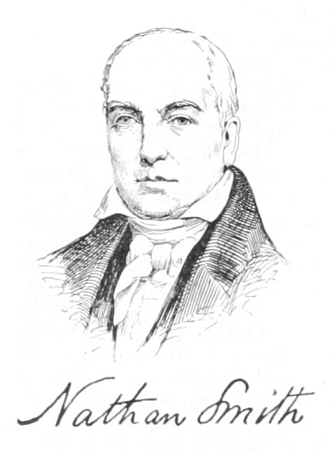 Senator Nation Smith from Appleton's Cyclopaedia of American Biography, Volume 5